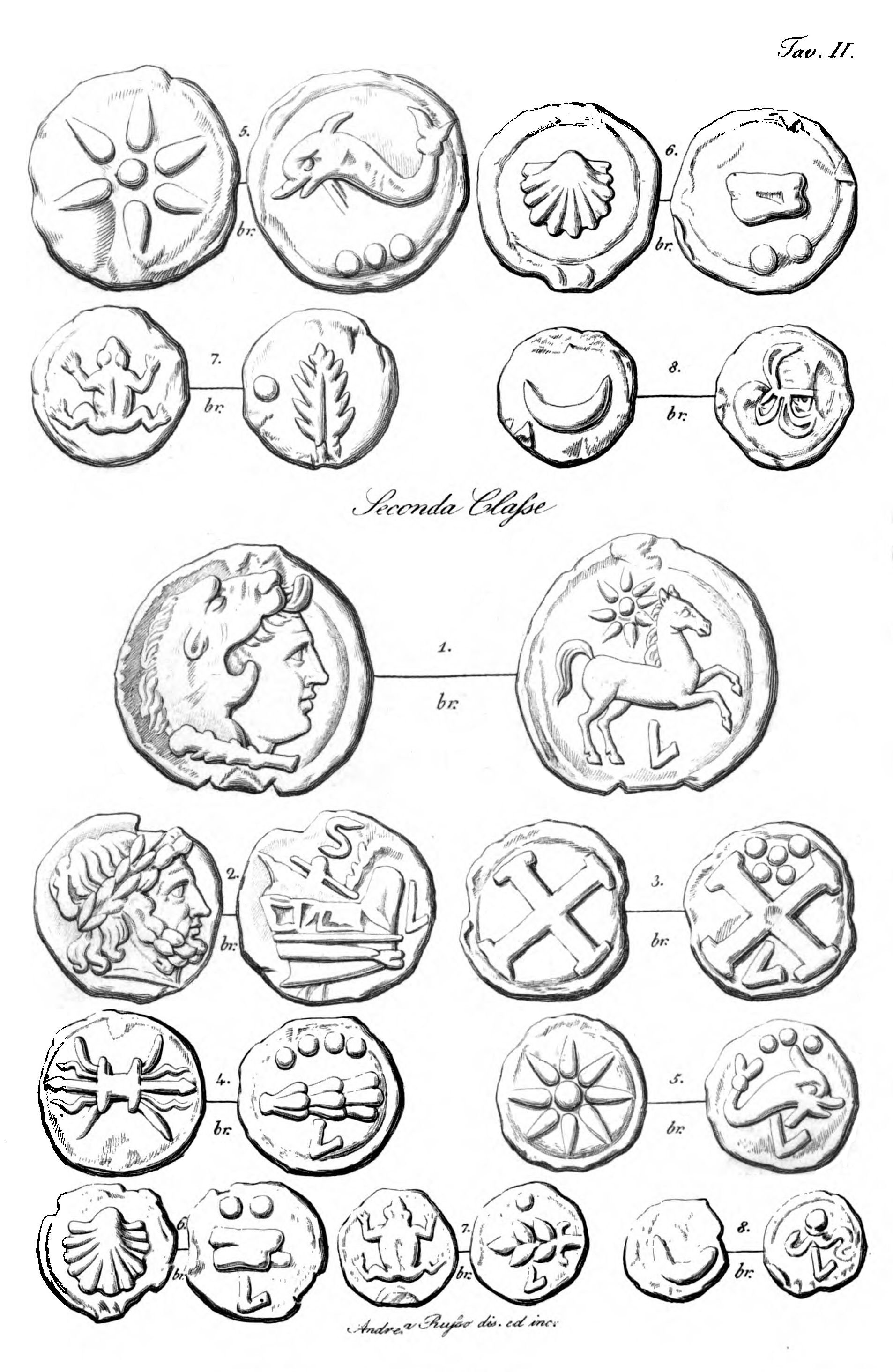 Illustration of "Le monete attribuite alla zecca dell'antica città di Luceria" (i.e. Coins attributed to ancient city of Lucera), by Gennaro Riccio, (in Italian)